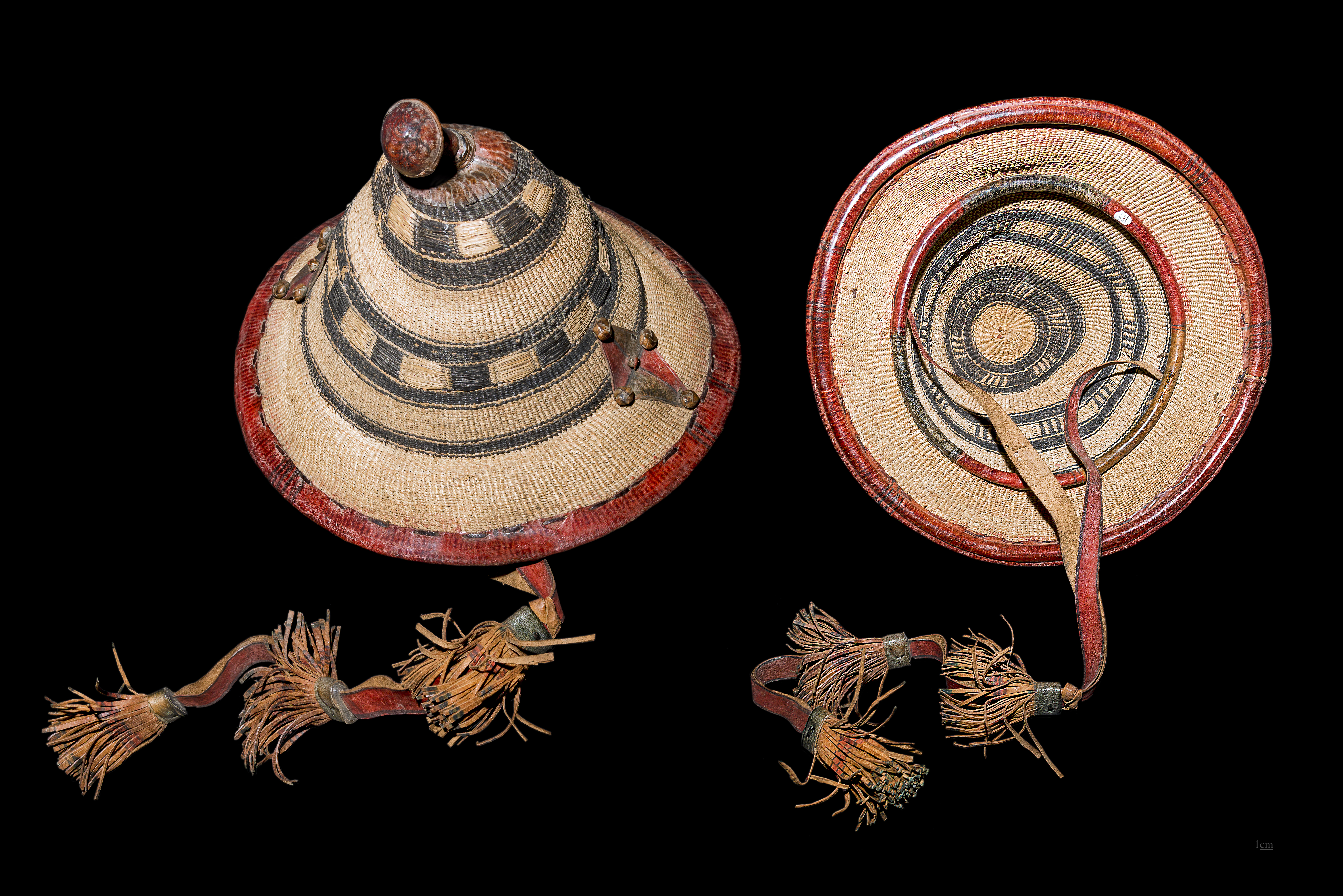 West African hat. Round black wicker headdress decorated with geometric patterns. The upper part of the cap, so that the edges are smooth jugular dyed red and brown leather. This hat was worn by shepherds over a cotton cap. Population : French Sudan (Mali, Senegal) Collector and collection: Joseph Gallièni Collection Method: Military Shipping Materials: Natural fibers and leather Size : 26x36x38 cm